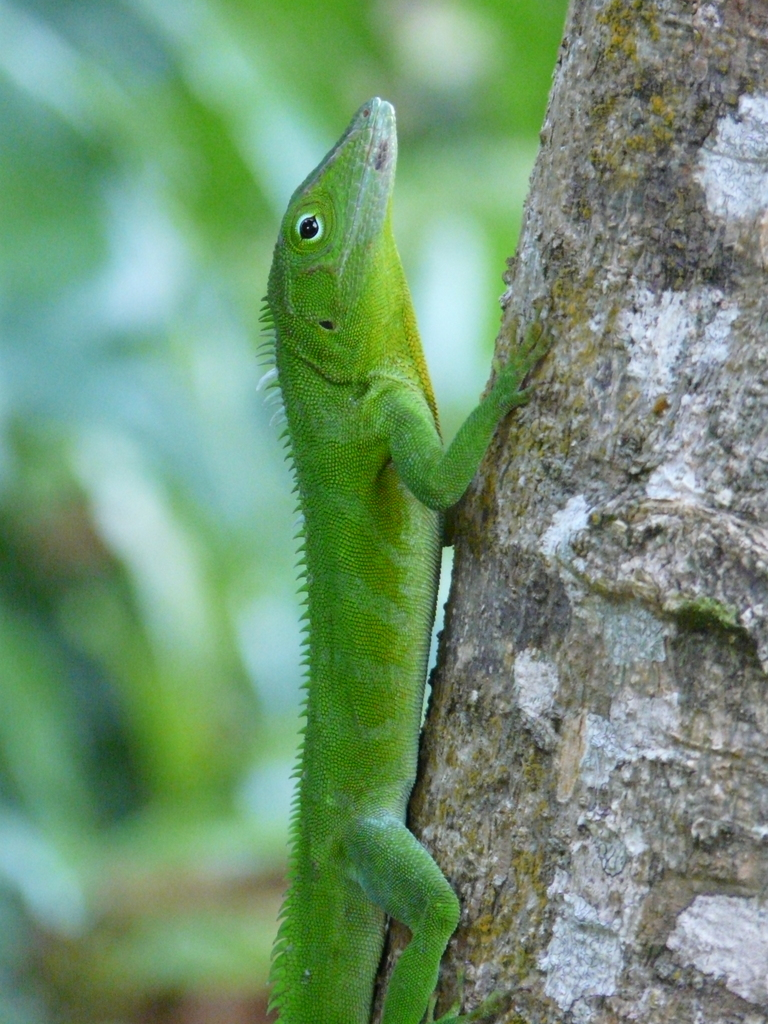 Anolis garmani on tree